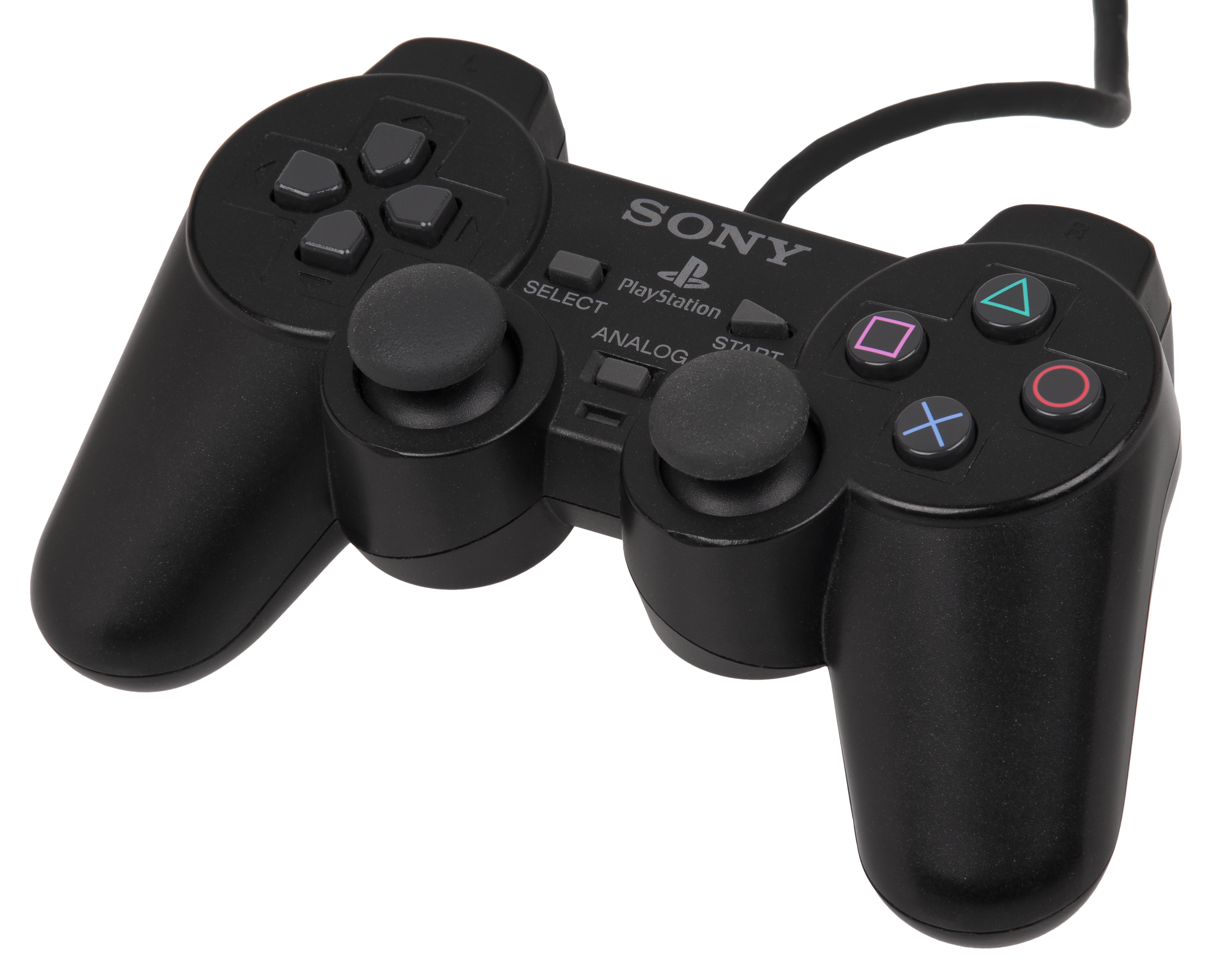 A Sony PlayStation 2 DualShock2 controller.